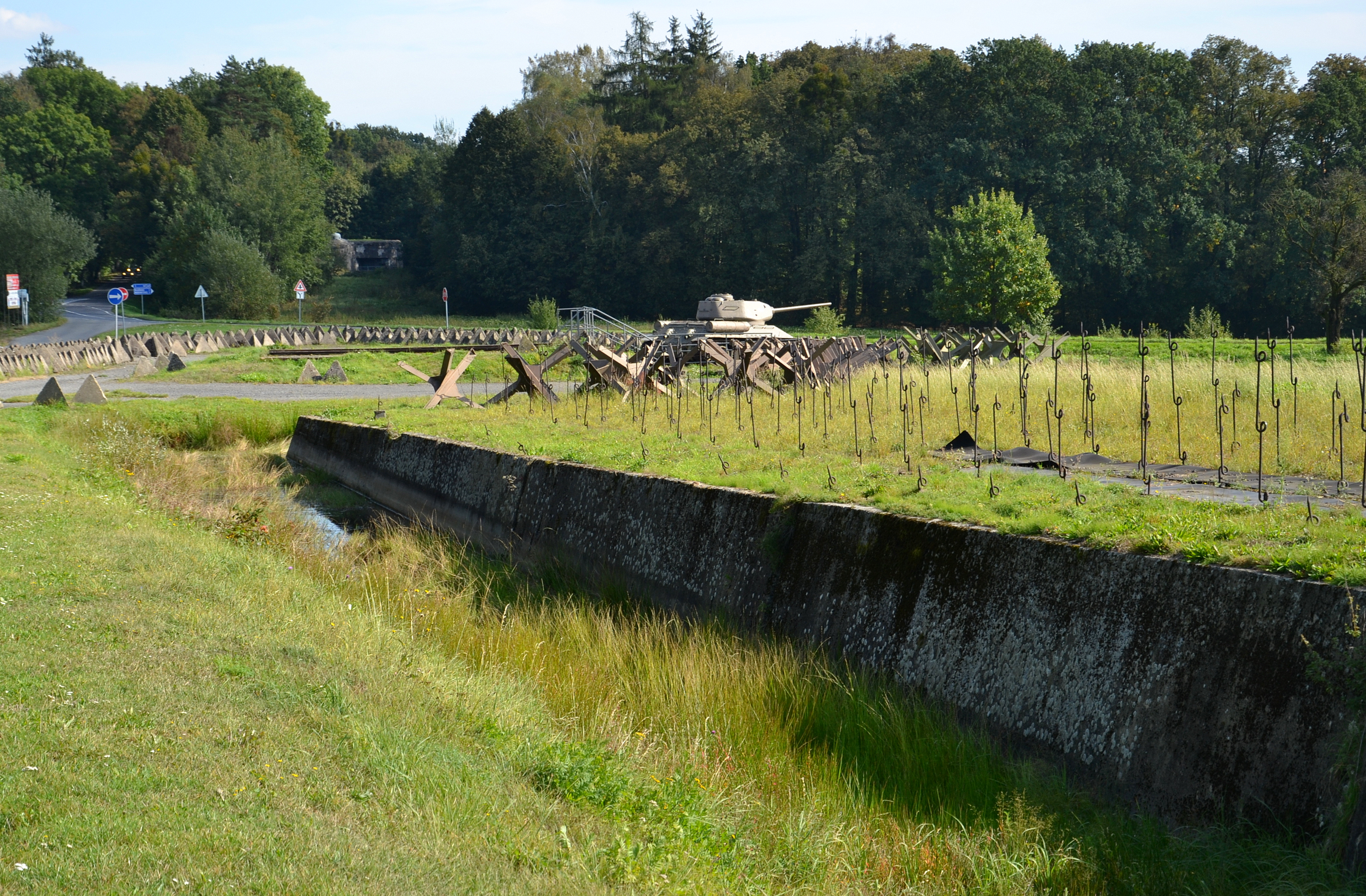 Museum of the fortifications in Hlučín-Darkovičky, Czech Silesia